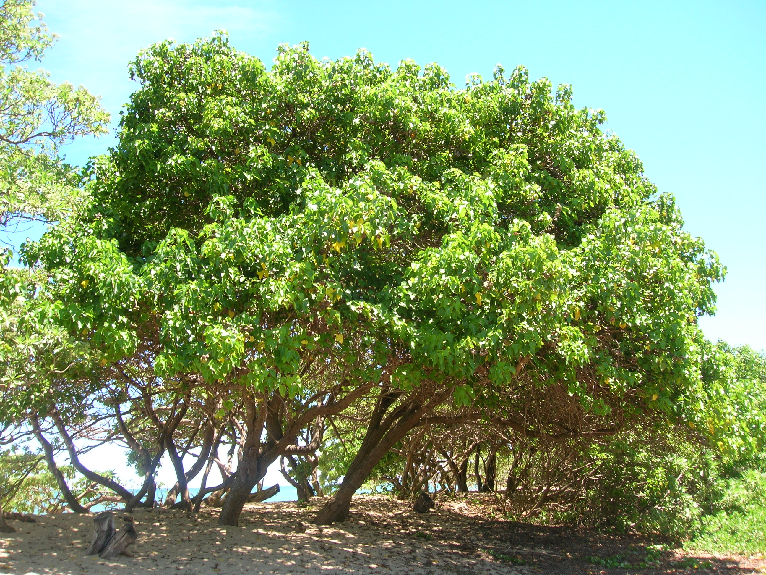 Thespesia populnea (habit). Location: Maui, Kanaha Beach